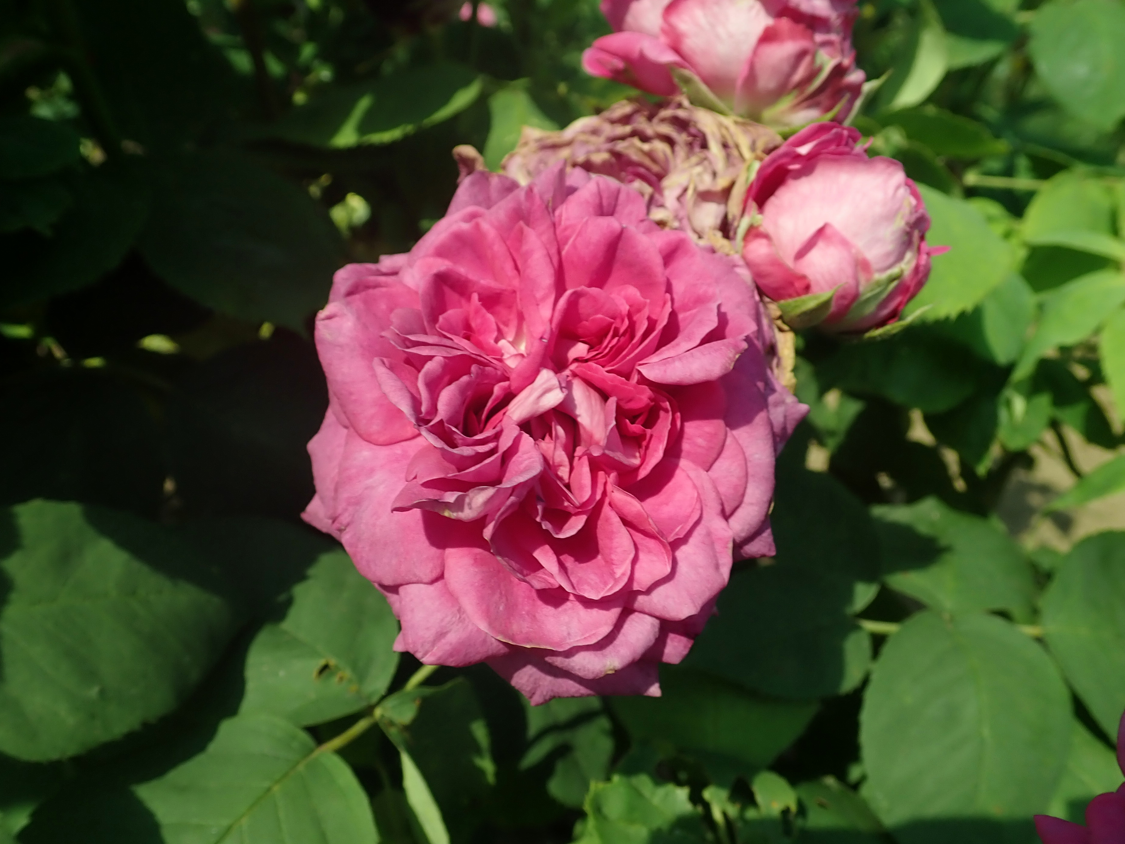 Rosa ‘Genéral Stefánik’ (J. Böhm, 1931), Europa-Rosarium Sangerhausen.